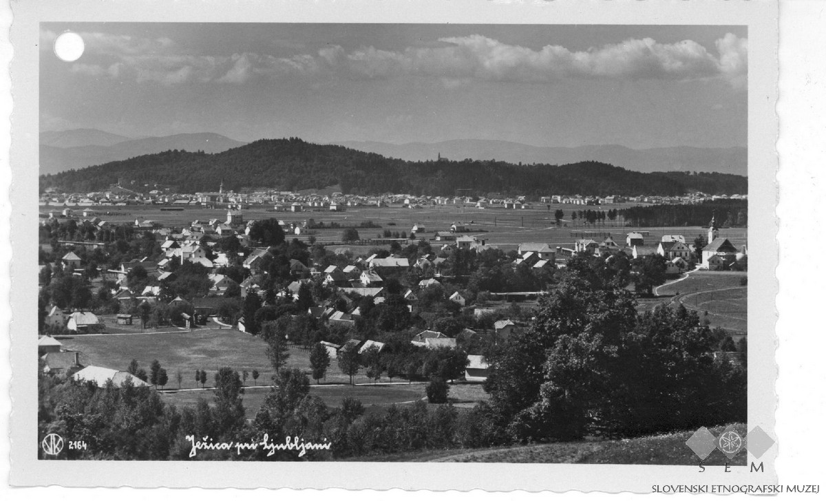 Postcard of Ljubljana, Ježica